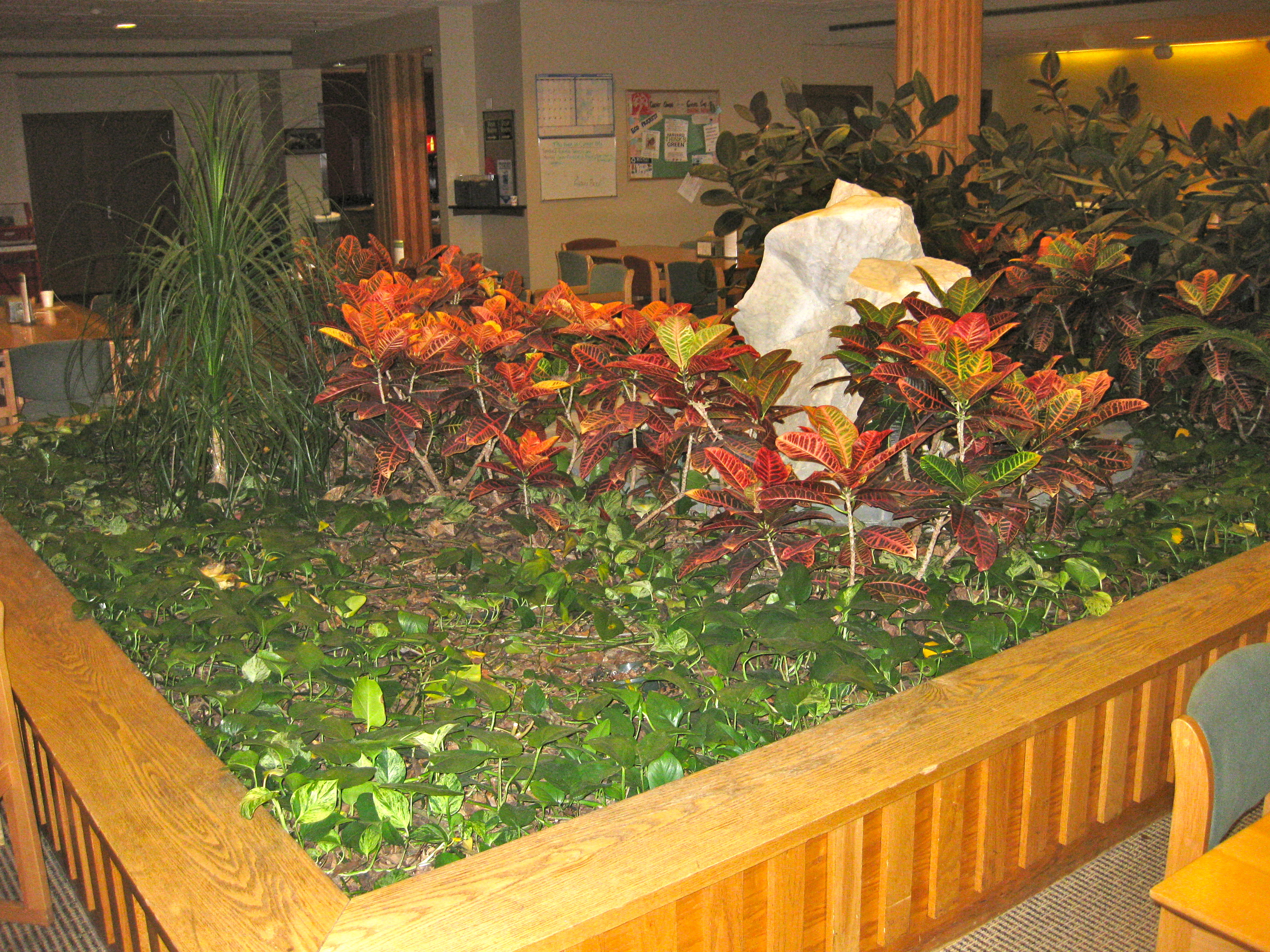 Plants surround the fountain in the dining hall of Currier House at Harvard University